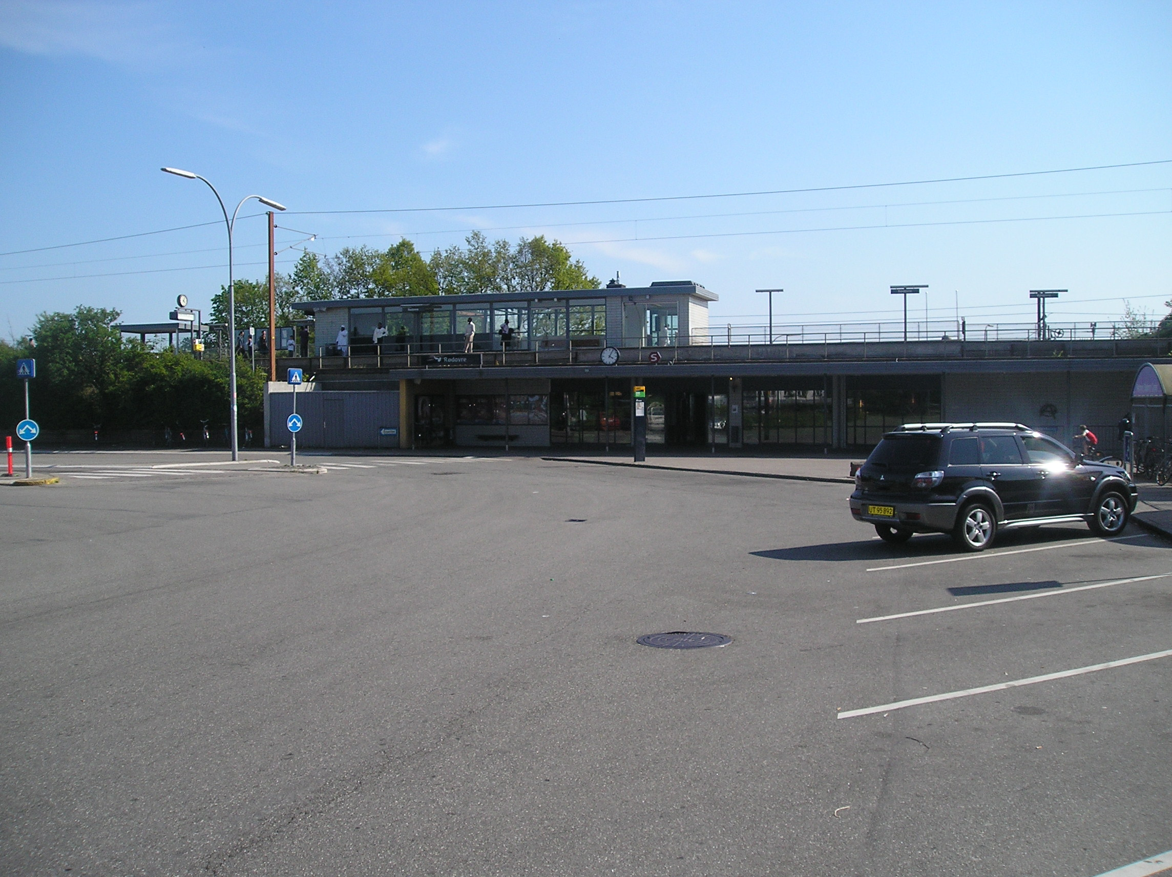 Copenhagen S-train station Rødovre.